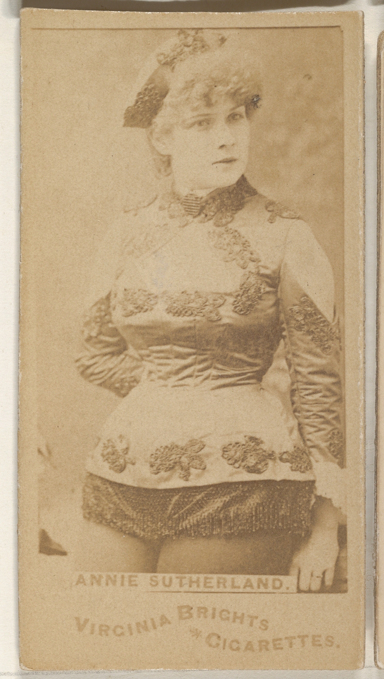 Photograph; Photographs/Ephemera